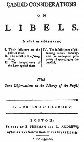 From: "Candid considerations on libels. In which are represented, I. Their influence on the publick mind. II. The necessity of refuting them, III. The inexpediency of the law against them. IV. The insuffiency of obtaining redress thereby, and the consequent propriety of appealing to the publick. With some observations on the liberty of the press. By a friend to harmony." Boston: printed by E. Freeman and L. Andrews